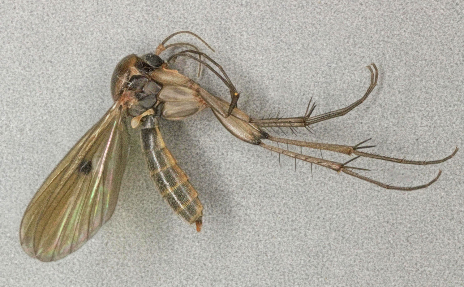 Mycetophila unipunctata, Trawscoed, North Wales, Oct 2013